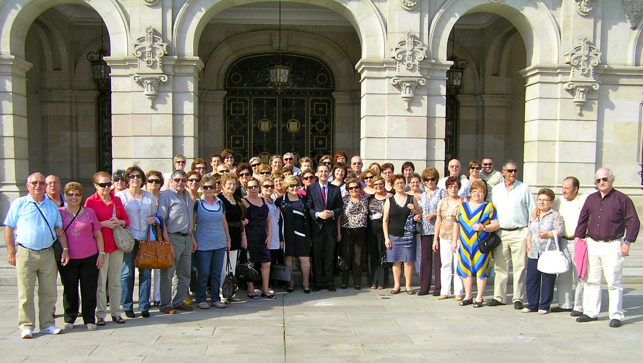 Juan de Dios Ruano en uno de sus Martes Populares